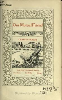 Cover of the book "Our Mutual Friend" (Charles Dickens) by Continental Press publisher.